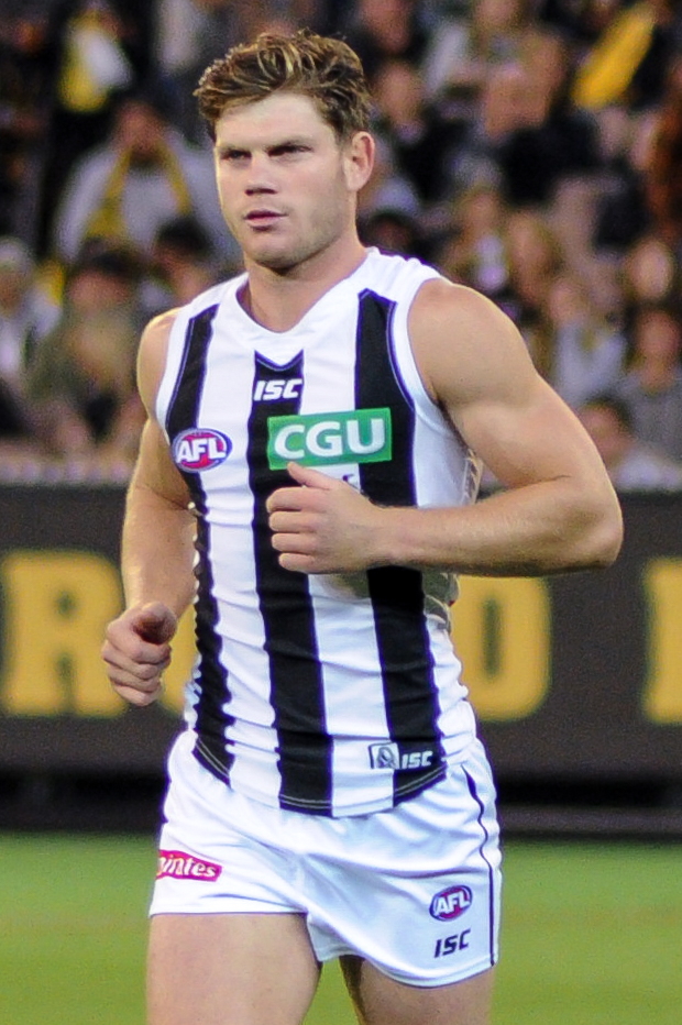 Taylor Adams during the AFL round two match between Richmond and Collingwood on 30 March 2017 at the Melbourne Cricket Ground in Melbourne, Victoria.